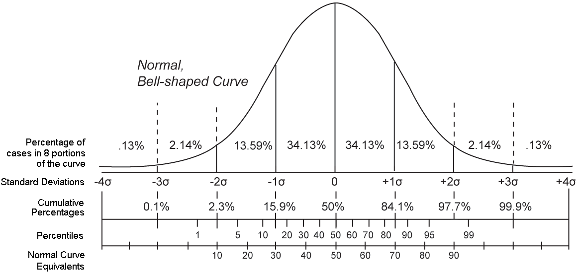 Originally created by User:Jeremykemp. Edited by User:Chris53516 for the purpose of comparing percentile ranks to normal curve equivalents. This graphic is for demonstration purposes only and should not be used to convert percentile ranks to normal curve equivalents or vice versa.